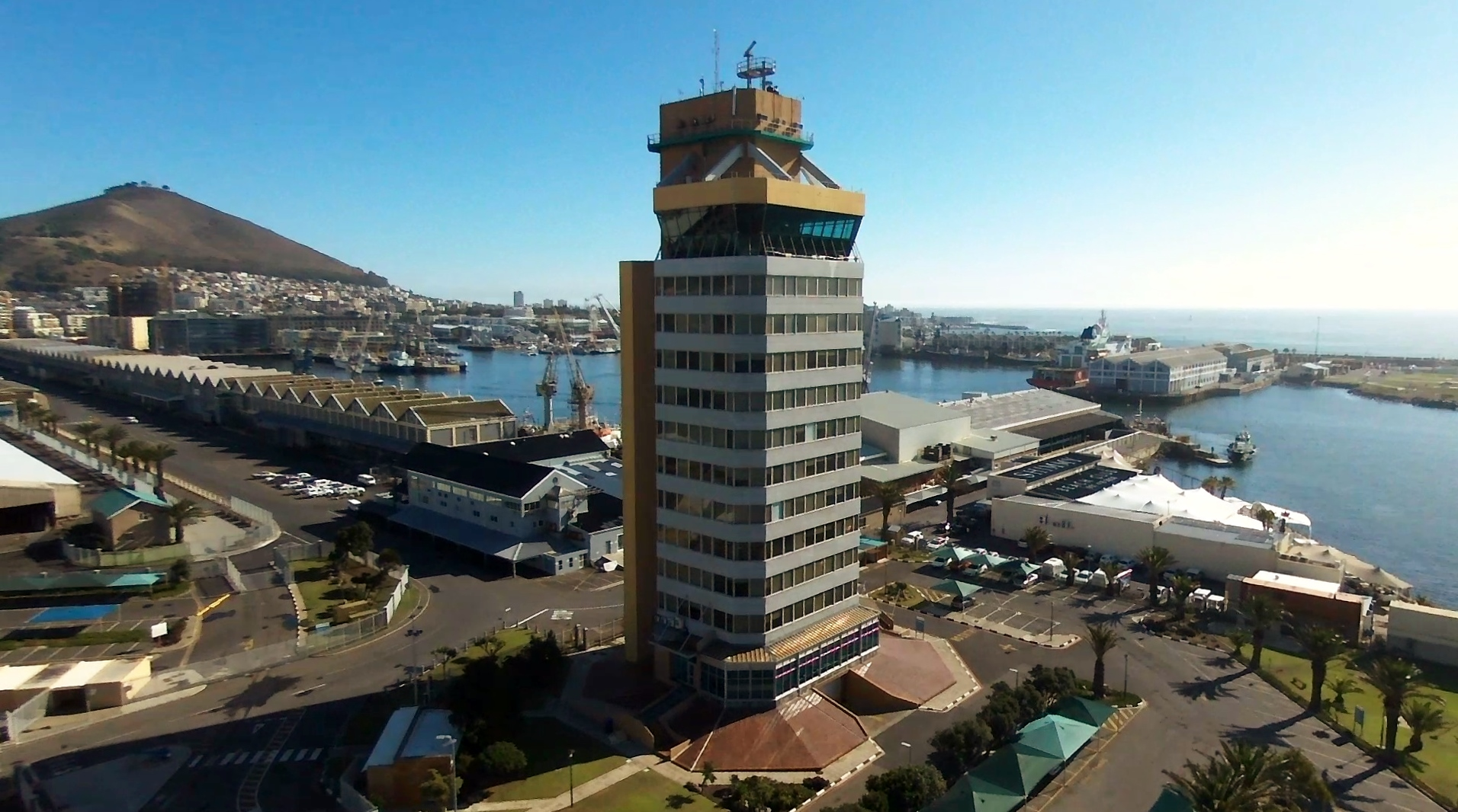 Cape Town Harbor